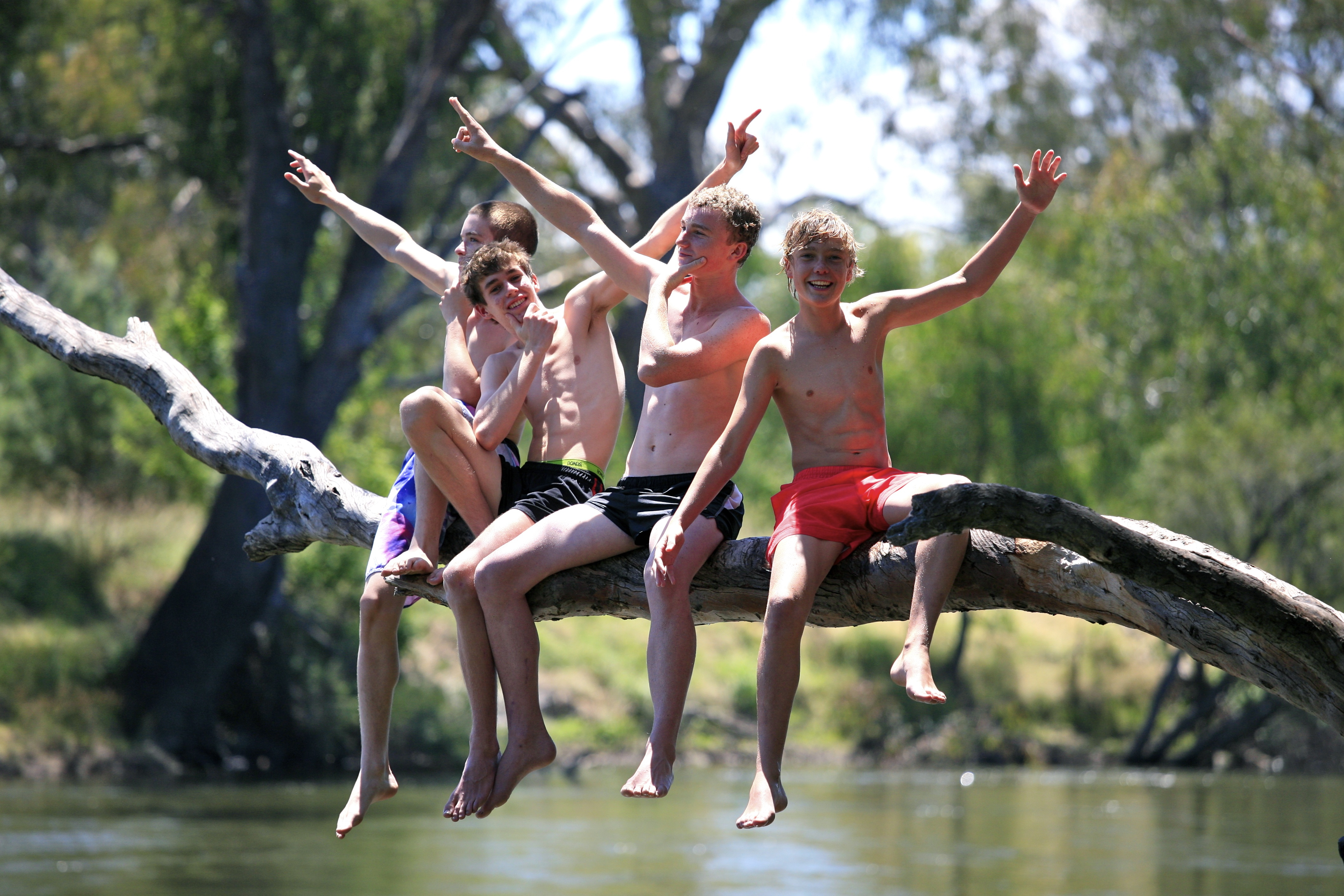 Teenagers at Play